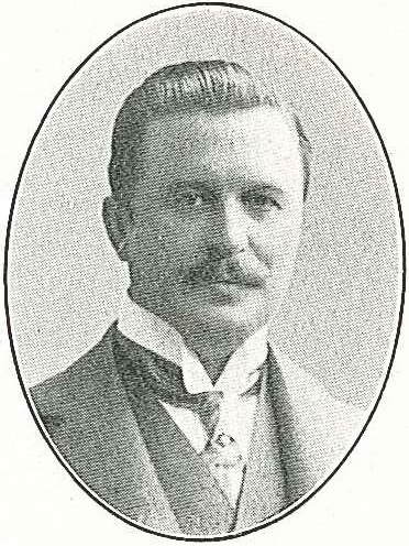 Sven Nyblom (1868-1931), Swedish opera director, translator of librettos and opera singer.